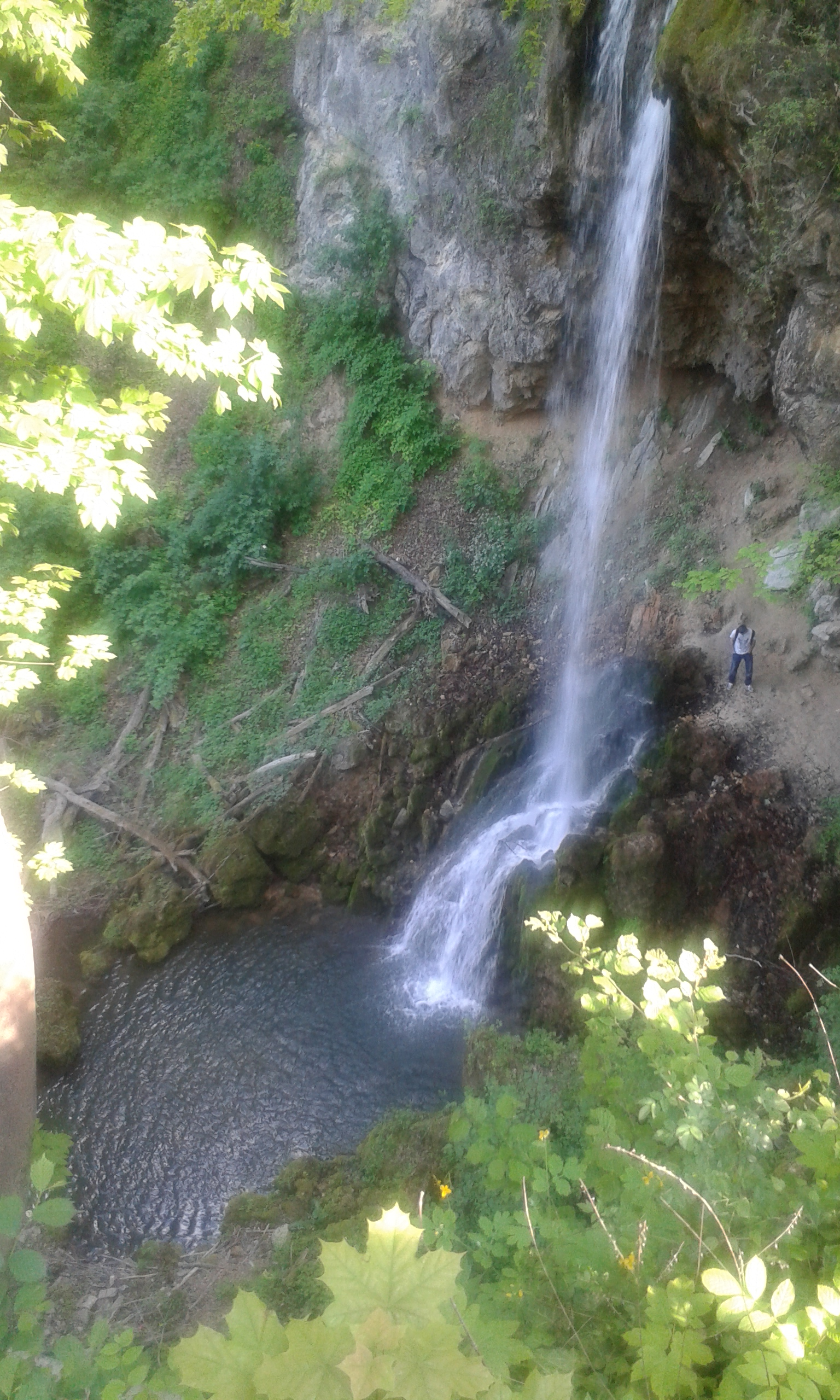 Wonderfully Lillafüred, Hungary